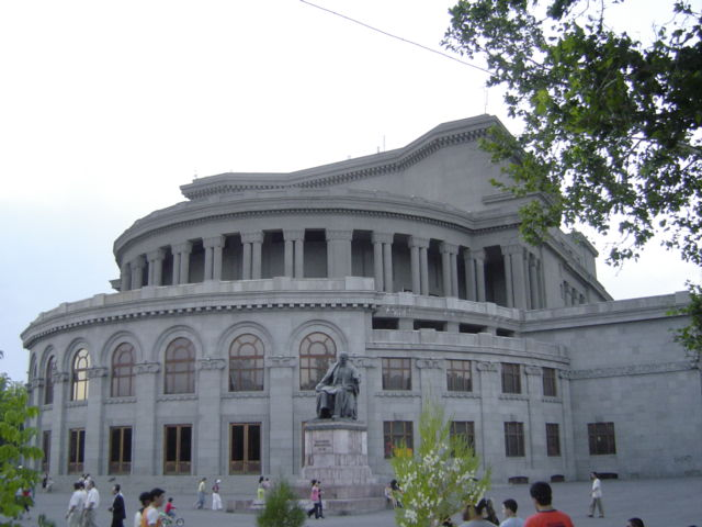 Yerevan's Opera house with the statue of Alexander Spendiaryan in front of it. Photo taken by Marshal Bagramyan.